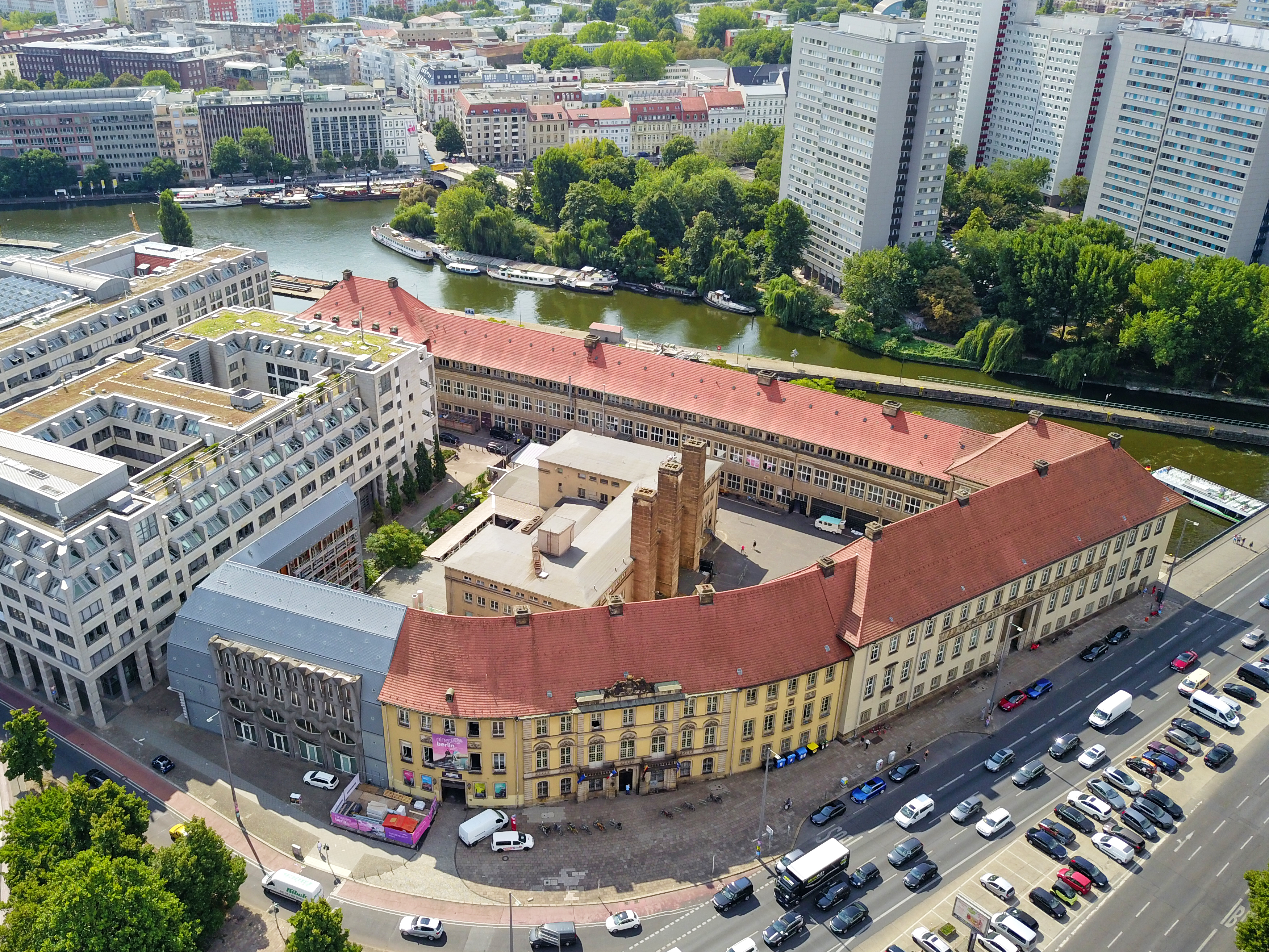 Venue Alte Münze, Molkenmarkt